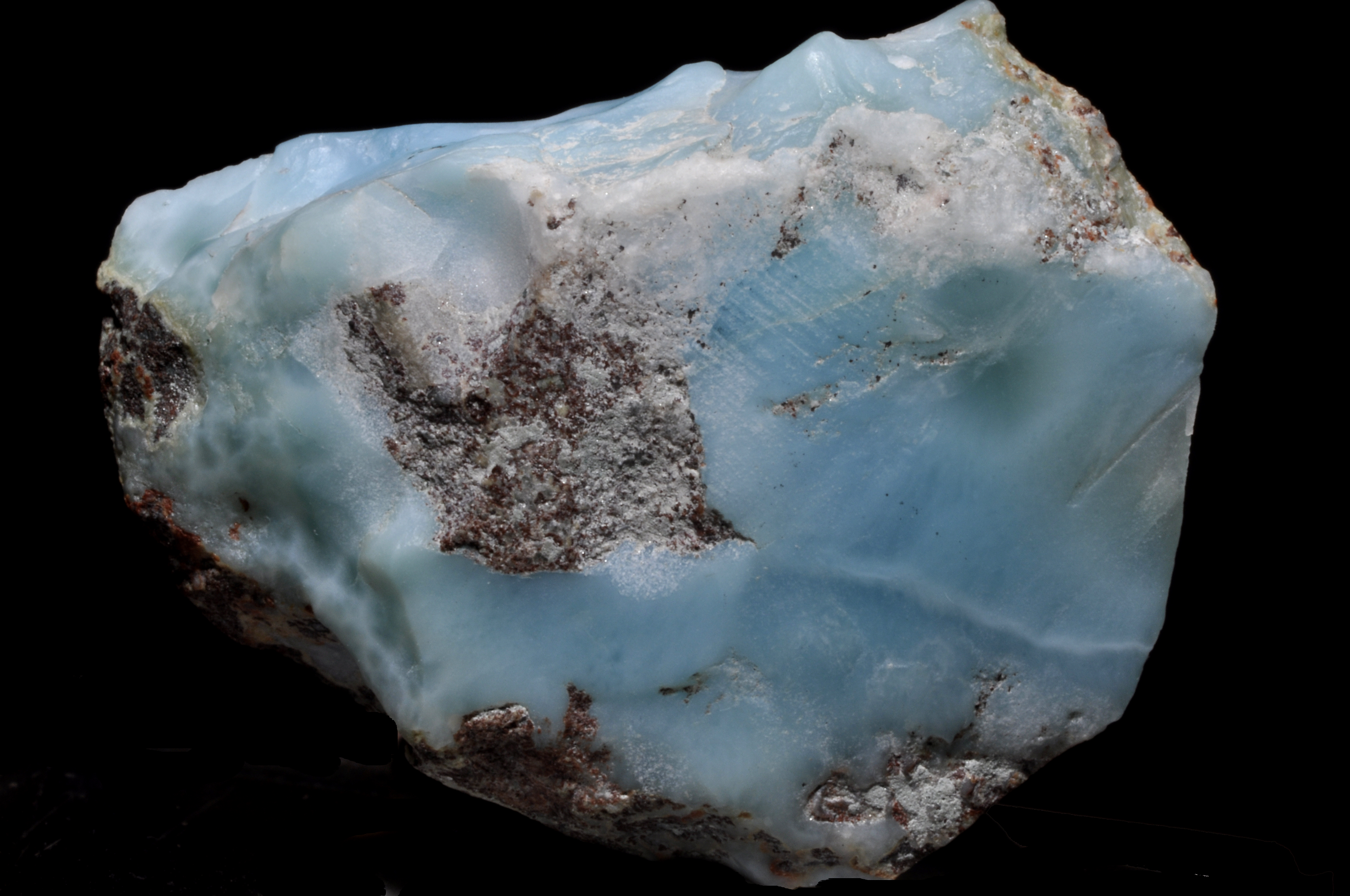 Larimar